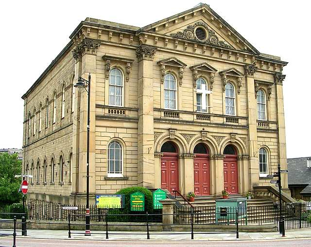 Central Methodist Church - Commercial Street